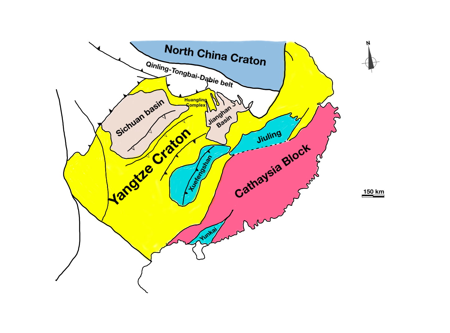 This map shows the constituent blocks of South China Craton.